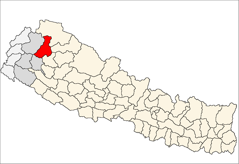 FrenchCarte de localisation dudistrict de Bajura(wp-FR),au Népal (wp-FR).EnglishLocation map ofBajura District(wp-EN),in Nepal (wp-EN).